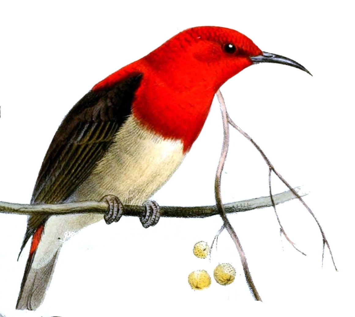 Adult males of Sulawesi Myzomela (top